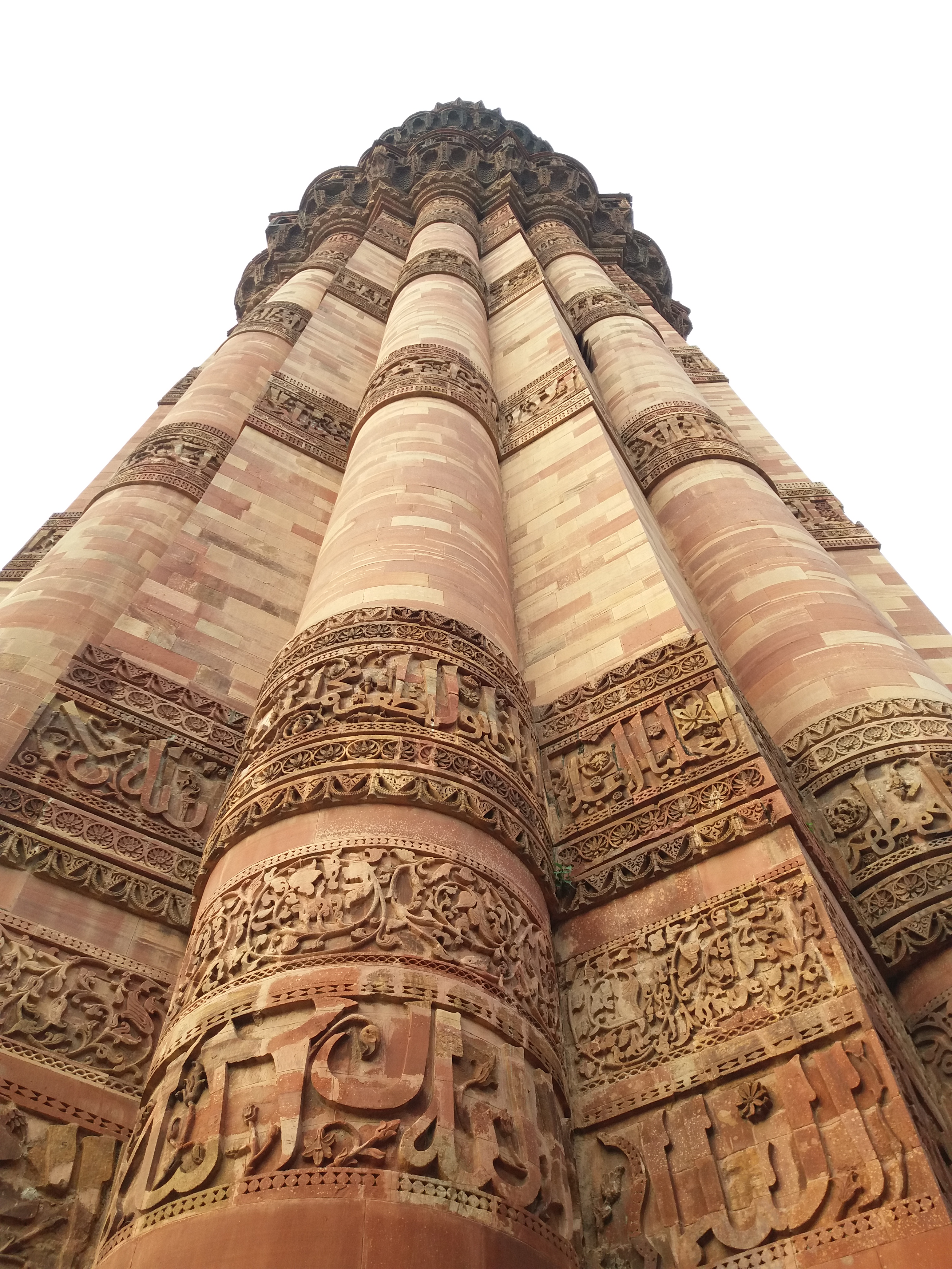 Calligraphy on Qutb Minar as seen from bottom up